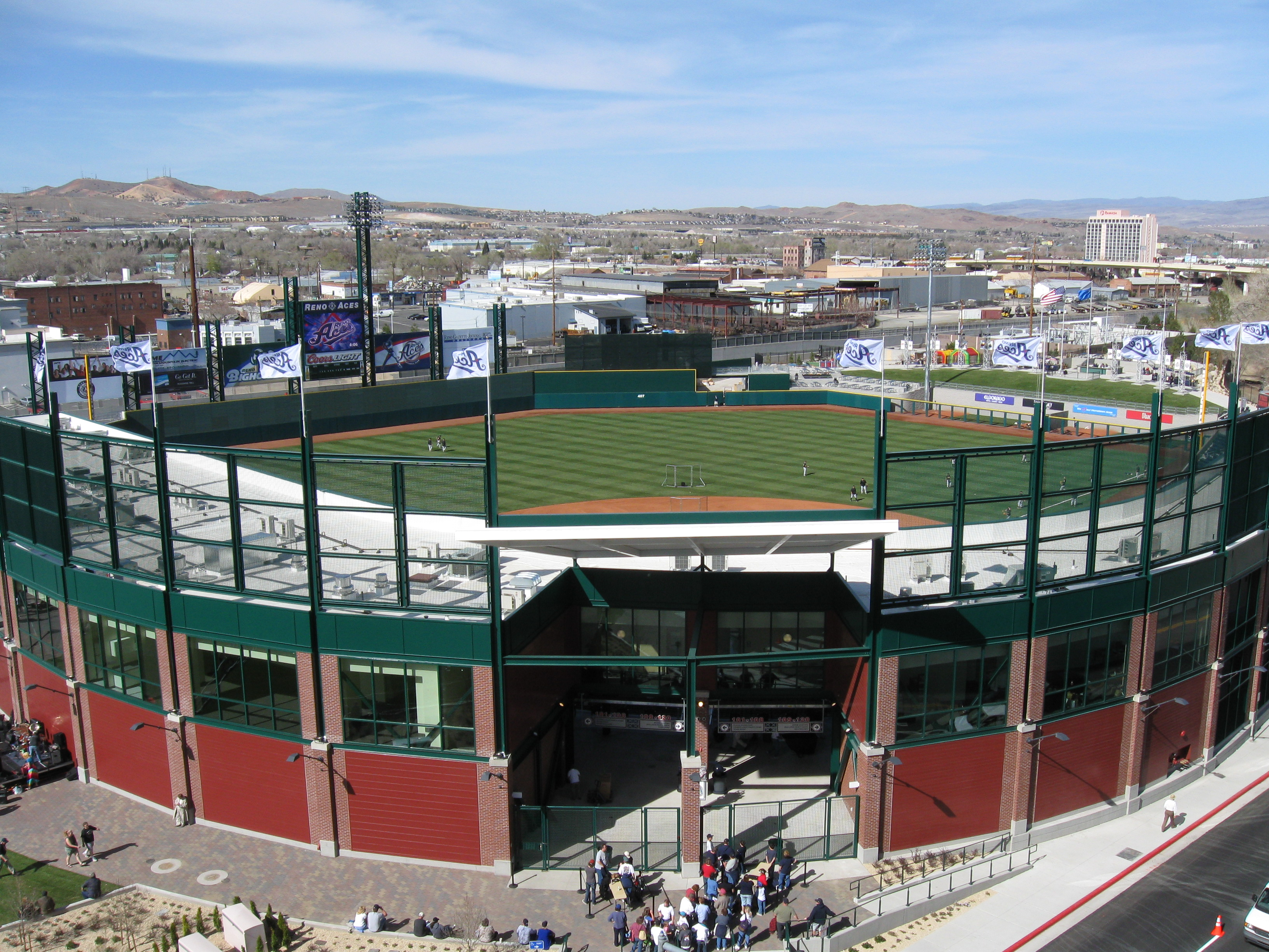 Aces Ballpark, as seen from the 9th floor of the Truckee River office tower / parking garage.